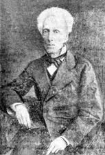 Image of former president Jose Javier Eguiguren (1875) of Ecuador